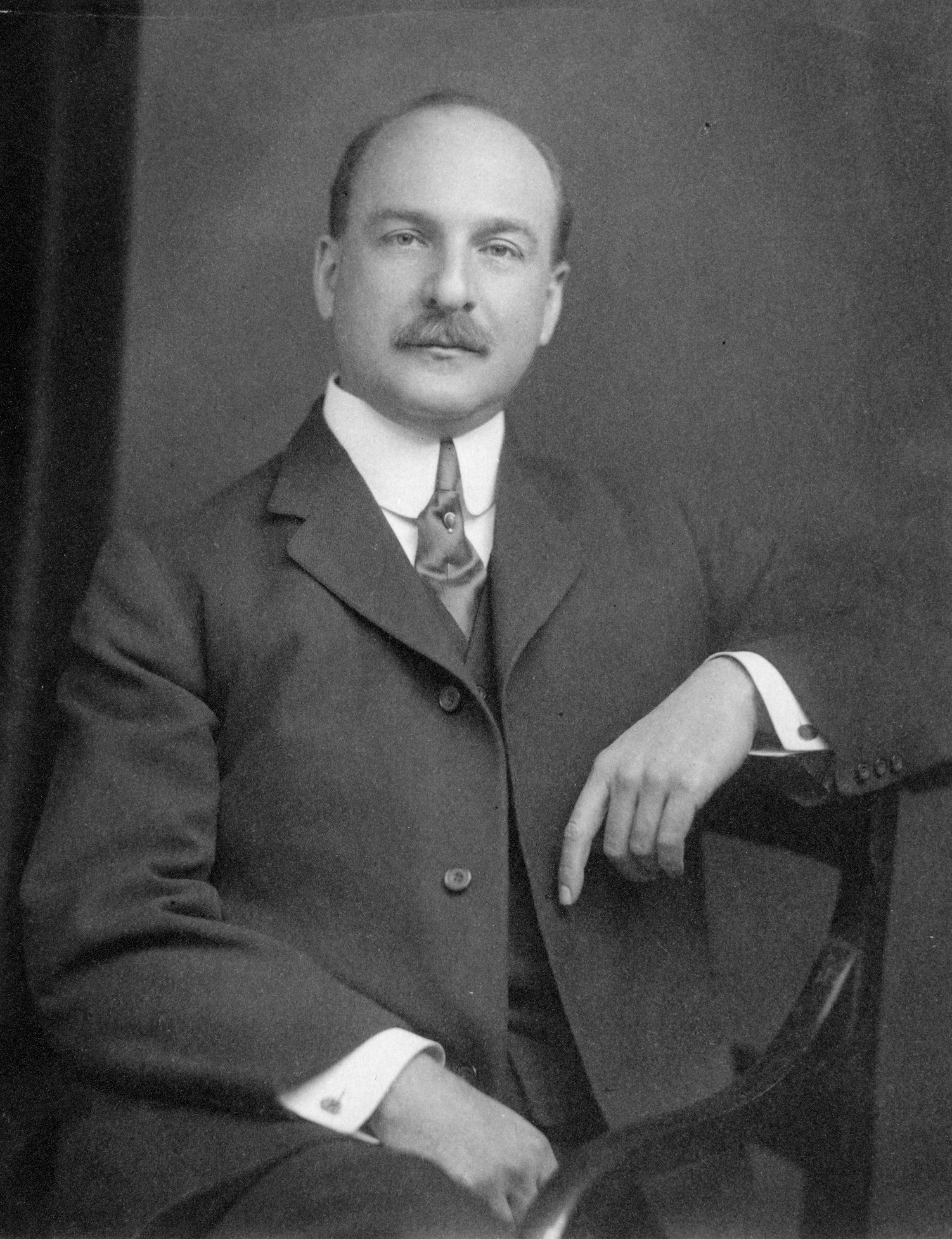 Pierre Samuel du Pont company photo, c. 1910